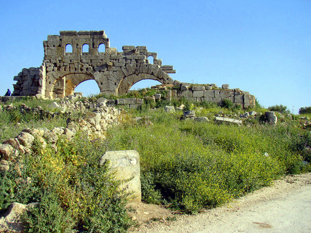 The Northern Maronite Basilica in Brad (Barad), Aleppo.